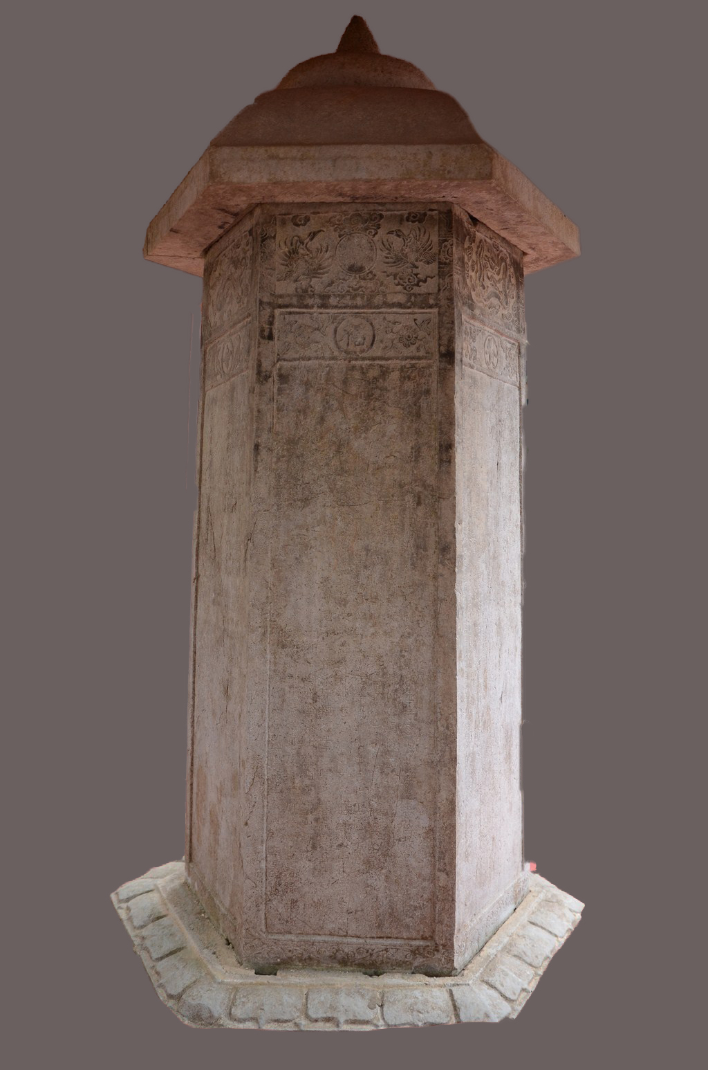 6-side hexagonal stele in Con Son Temple, Chi Linh, Hai Duong, Viet Nam (National Treasure of Vietnam)